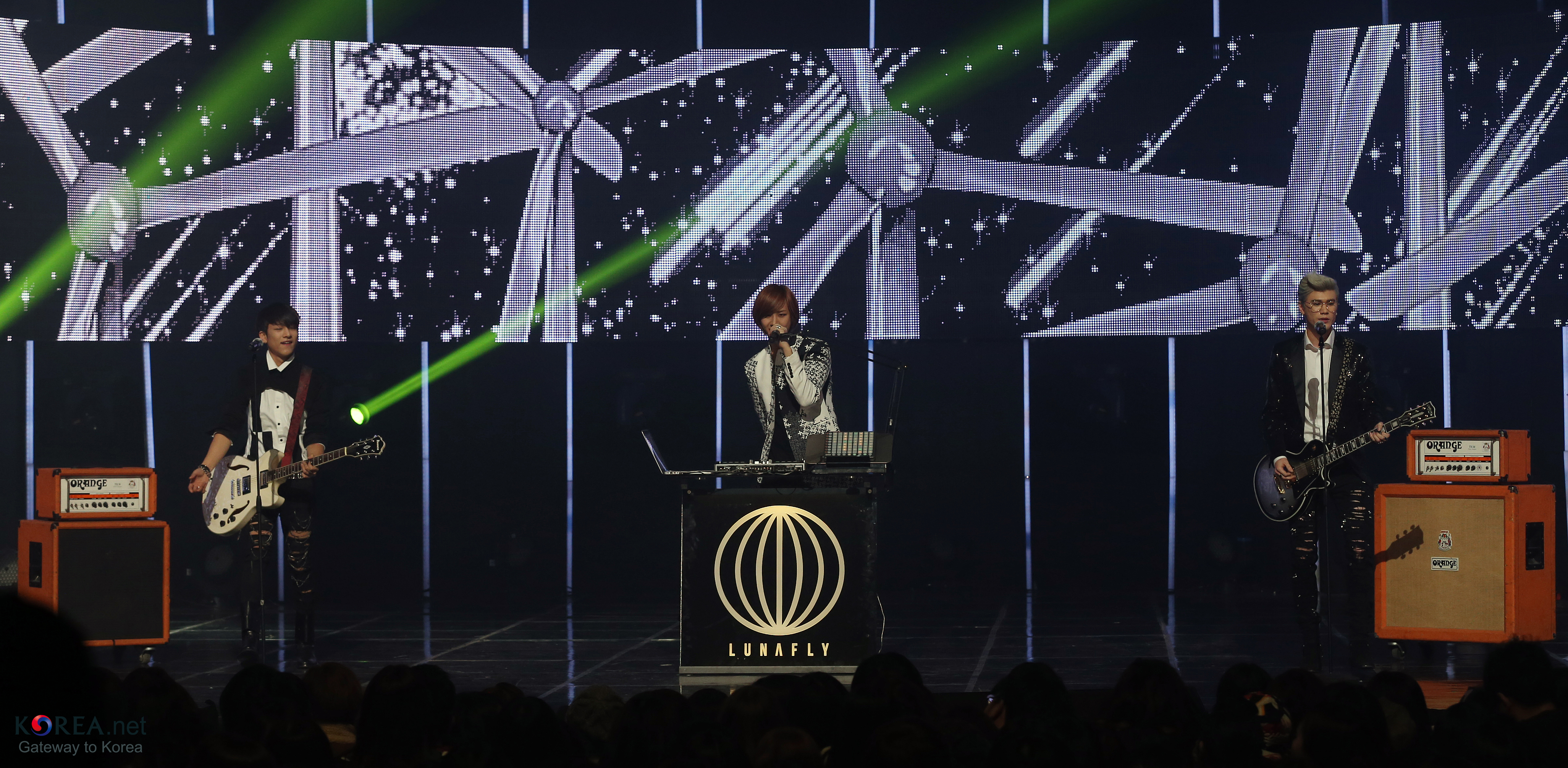 Mcountdown LUNAFLY Sam Carter, Teo, Yun CJ E&M Center, Sangam-dong, Mapo-gu, Seoul 2014.03.06. Ministry of Culture, Sports and Tourism Korean Culture and Information Service ( Jeon Han 엠카운트다운 생방송 루나플라이 ‘특별한 남자’ feat 미료 샘, 테오, 윤 2014-03-06 CJ E&M 센터 문화체육관광부 해외문화홍보원 코리아넷 전한